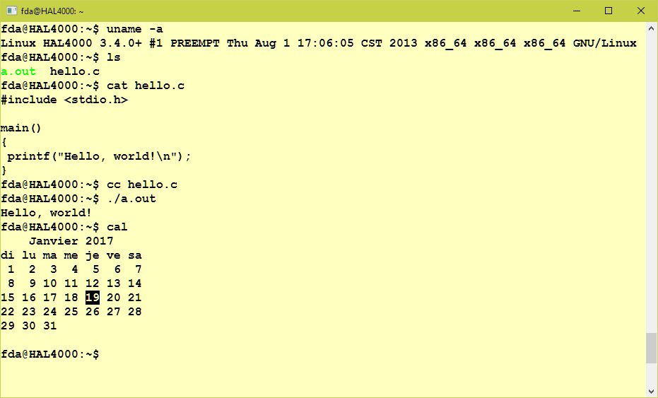 Example of a Linux text session in Bash on Windows 10. The Bash session also shows the Unix Cal command.